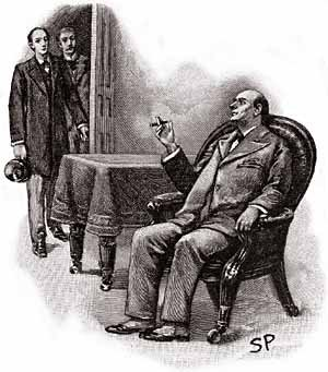 Picture from The Adventure of the Greek Interpreter